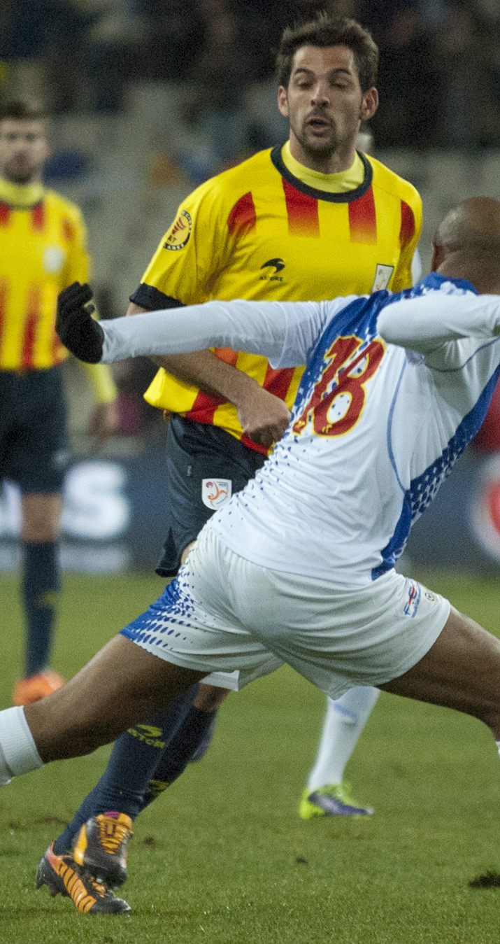 Spanish football player Víctor Sánchez Mata during friendly match Catalonia vs. Cape Verde